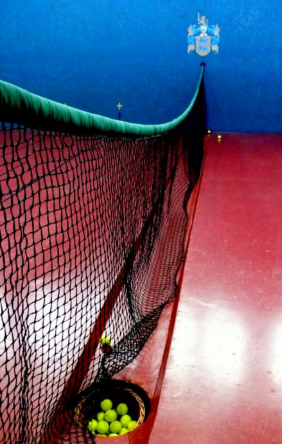 Hyde Real Tennis Court Net This shows the net running across the centre of the court and the gulley underneath which collects the balls. The balls are made of cork wound with fabric tape and covered with a layer of heavy duty woollen cloth known as melton cloth. The balls are much harder than those used in lawn tennis and they have very little bounce in them whatsoever. They used to be white but are now bright yellow for better visibility.